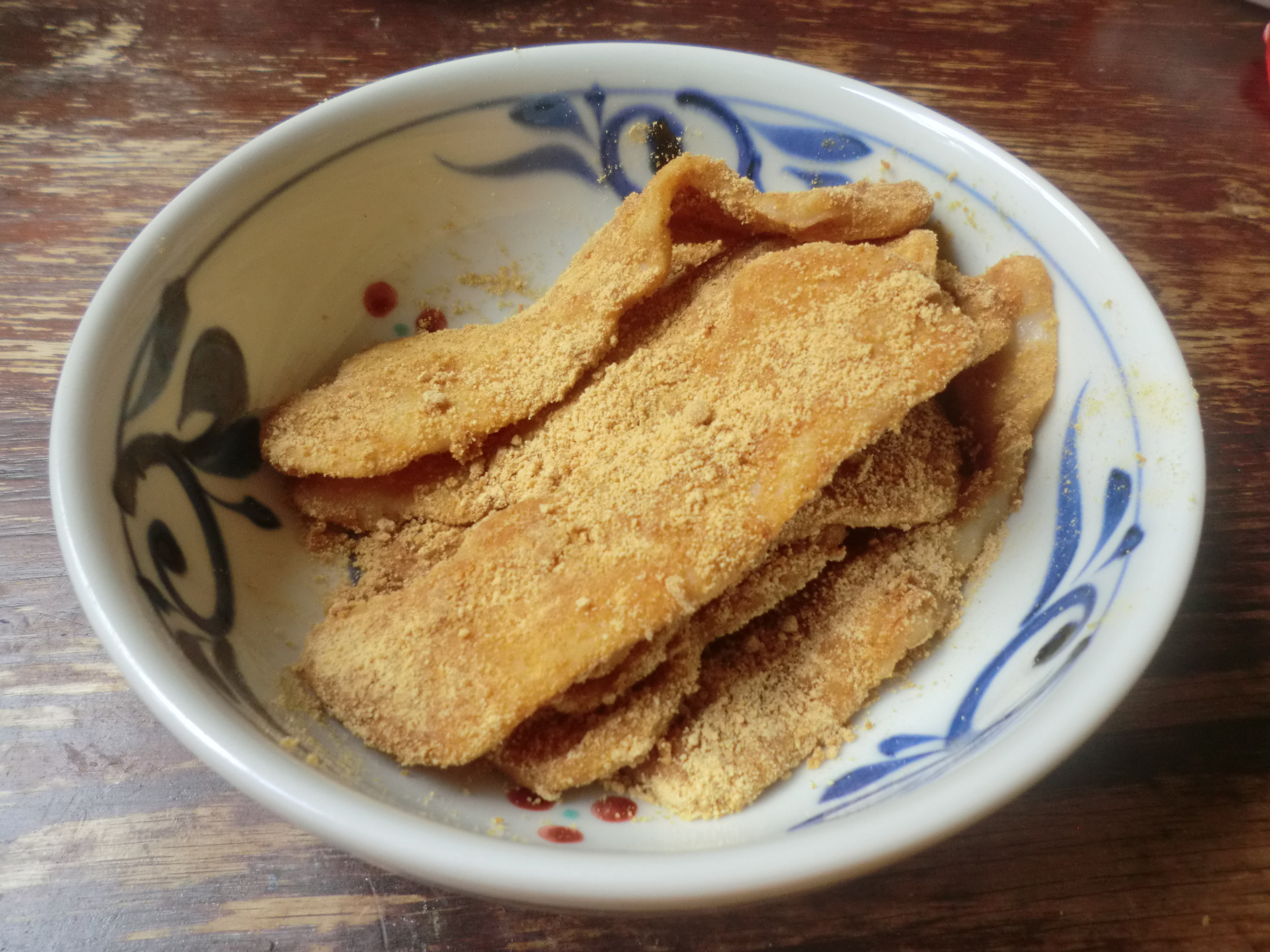 "Yaseuma"(local sweet) famous in Oita prefecture,Japan.